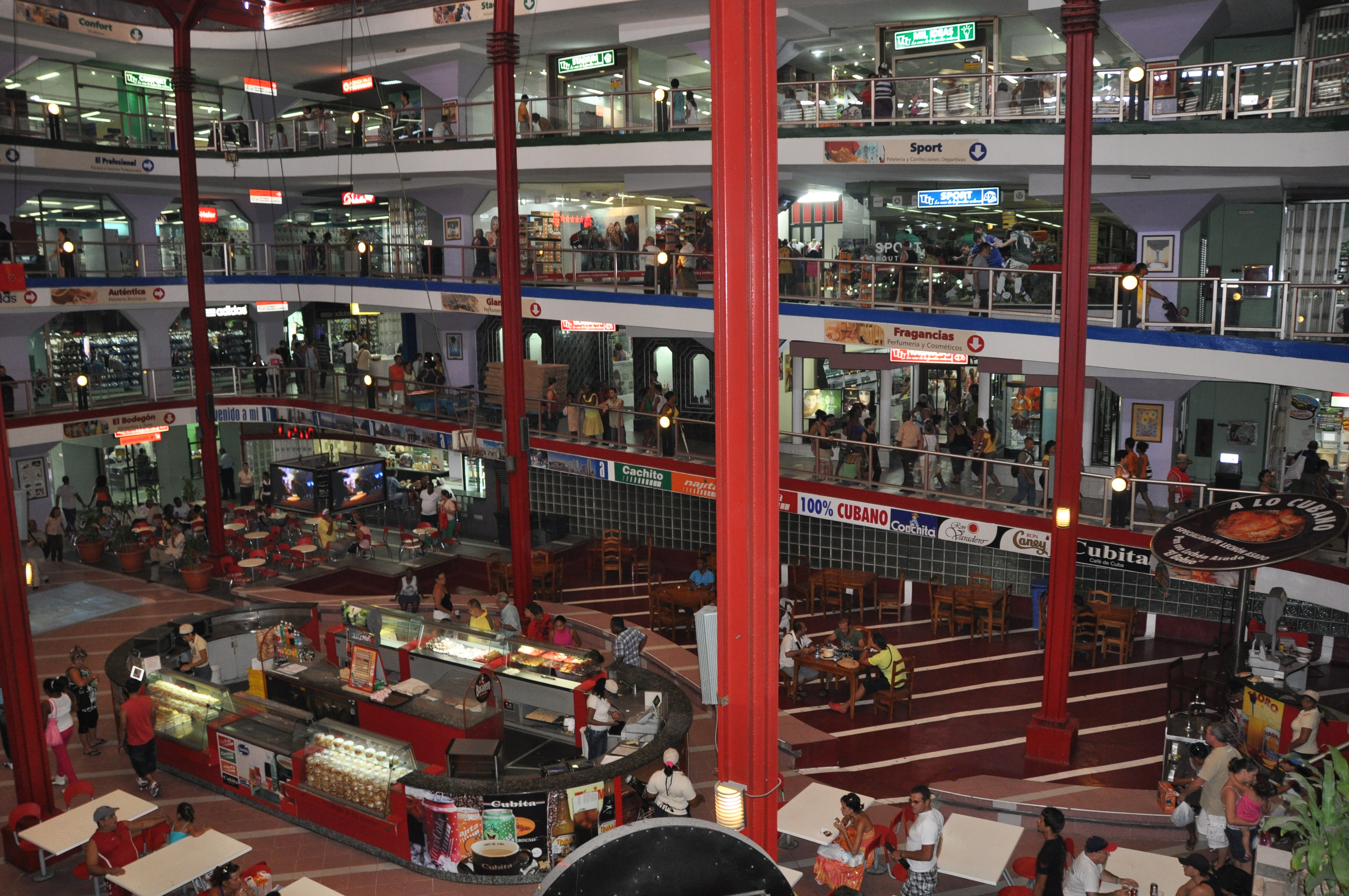 Commercial centre at Havana, Plaza de Carlos III